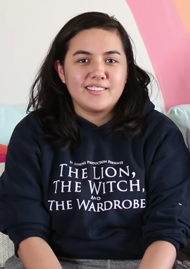 Elle Mills collaborating with Jessie Paege and ElloSteph